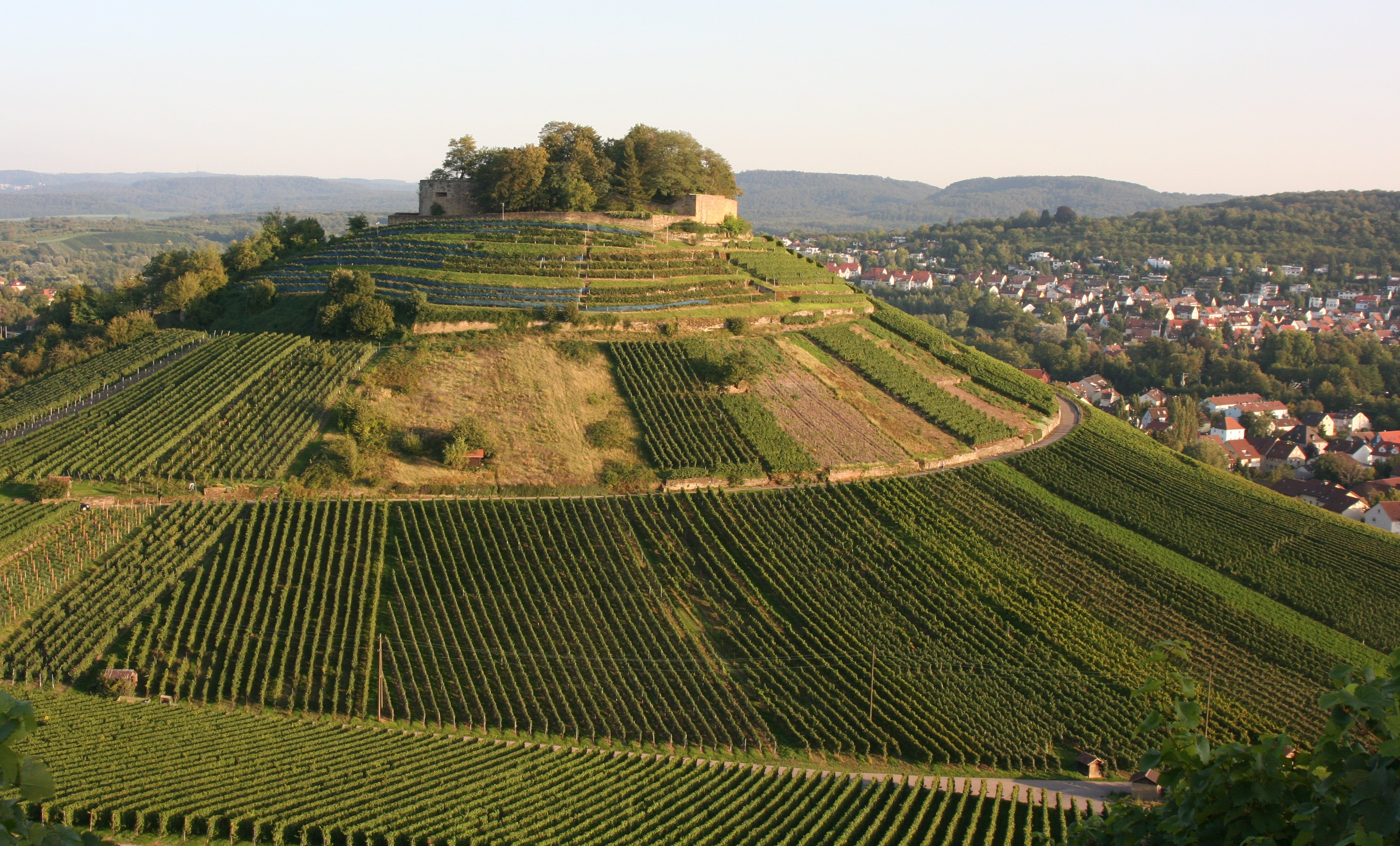 The Burgruine Weibertreu atop the castle hill in Weinsberg from the West